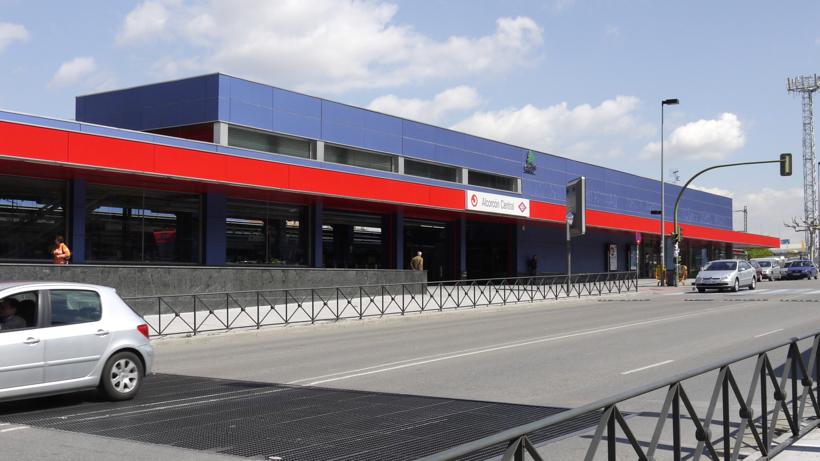 Alcorcón railway station, Spain.